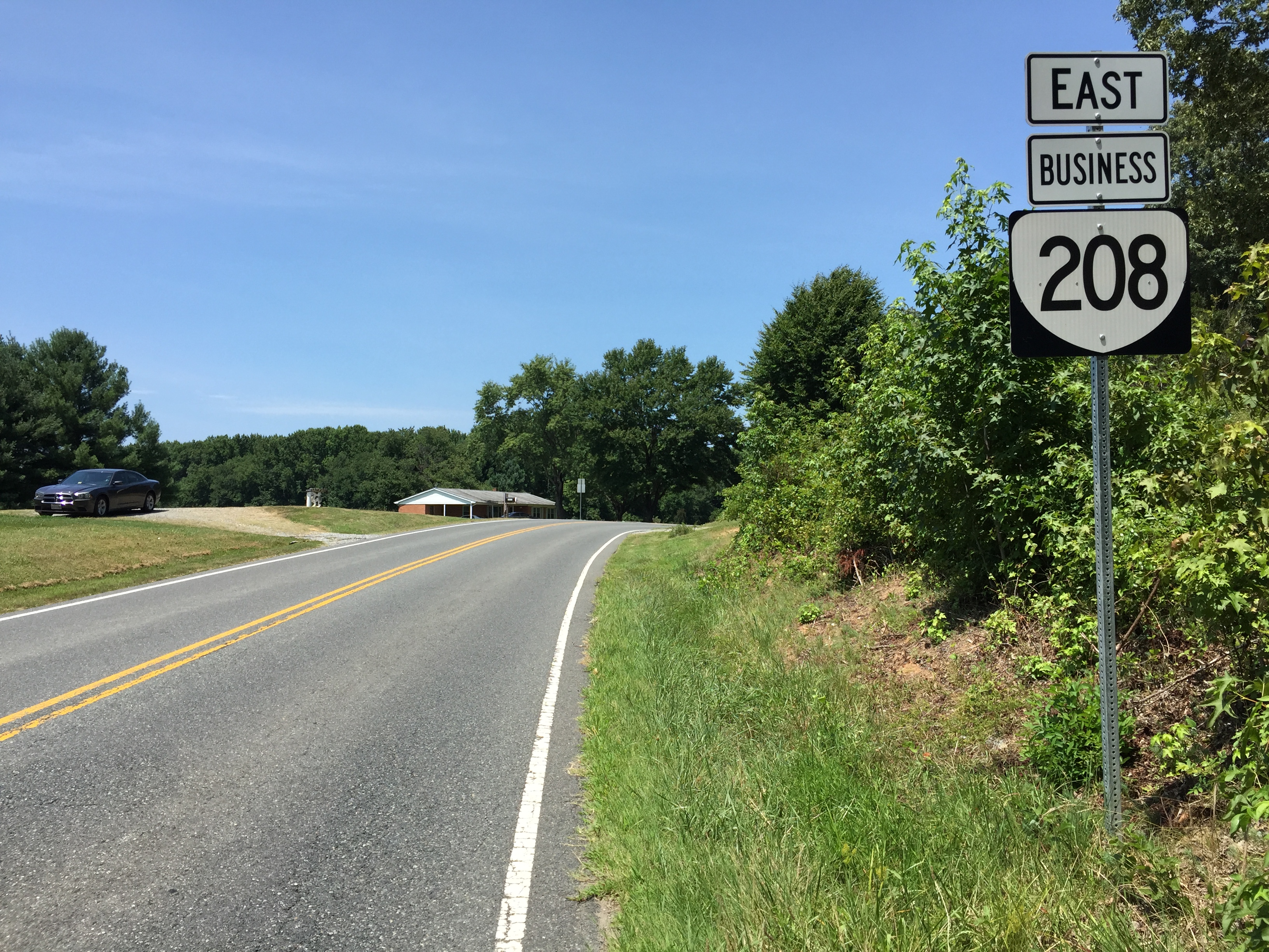 View east along Virginia State Route 208 Business (Courthouse Road) just east of Morris Road in Snell, Spotsylvania County, Virginia